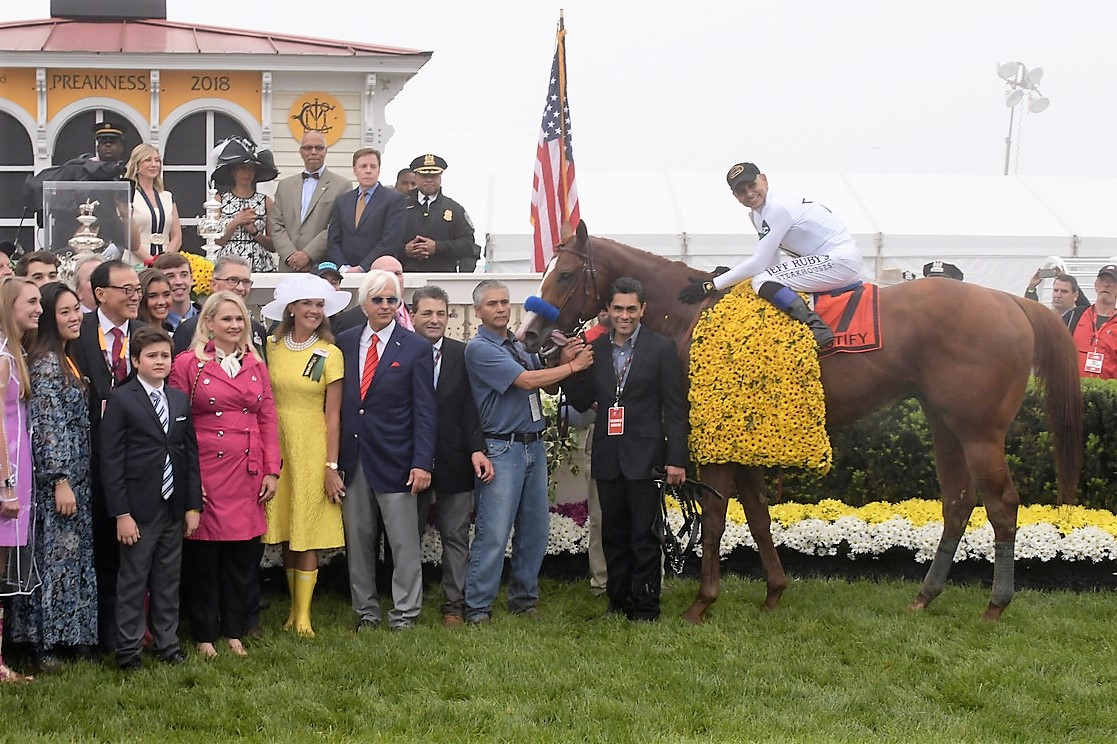 Justify and his connections in the winners circle after the 2018 Preakness